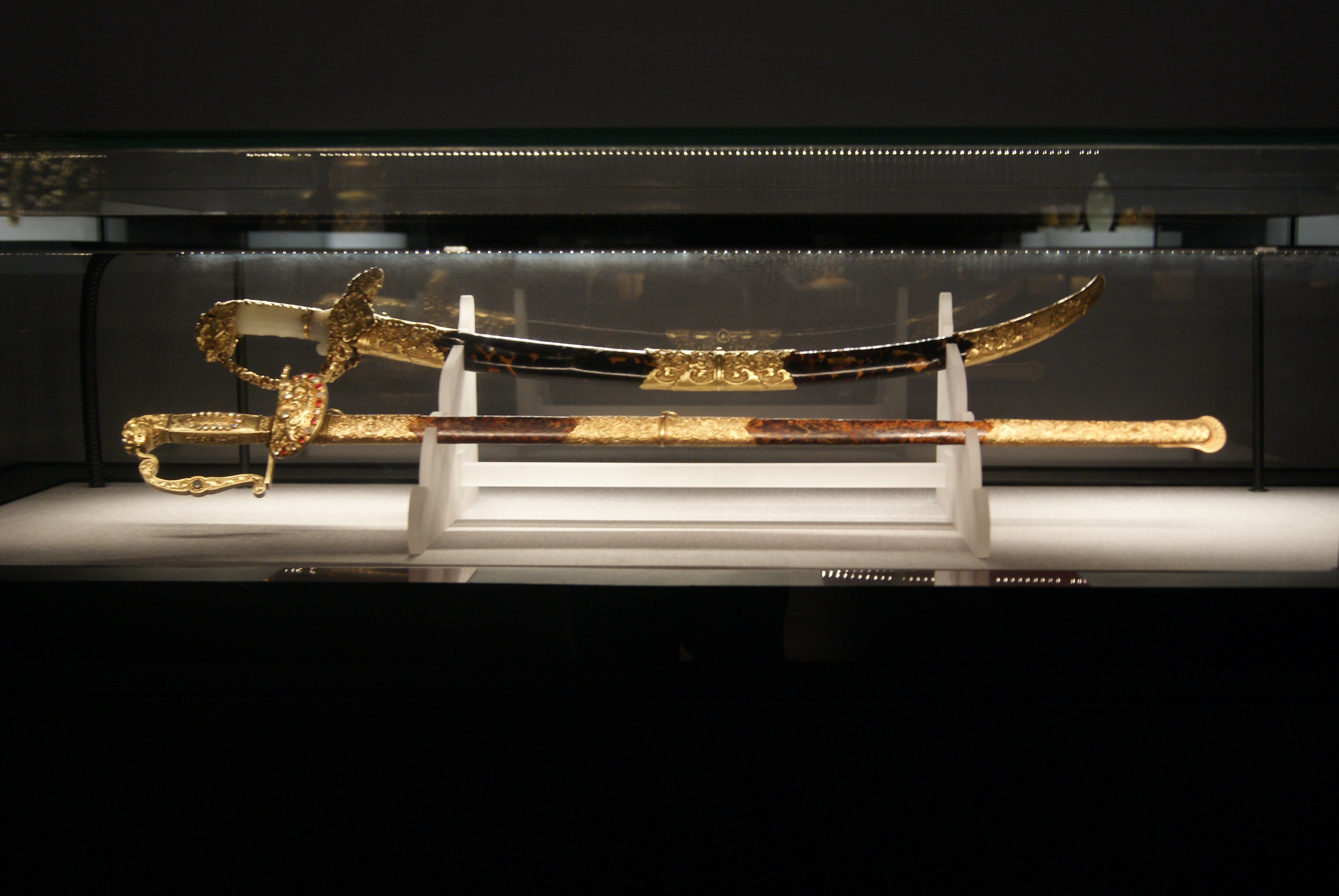 Swords, Vietnam